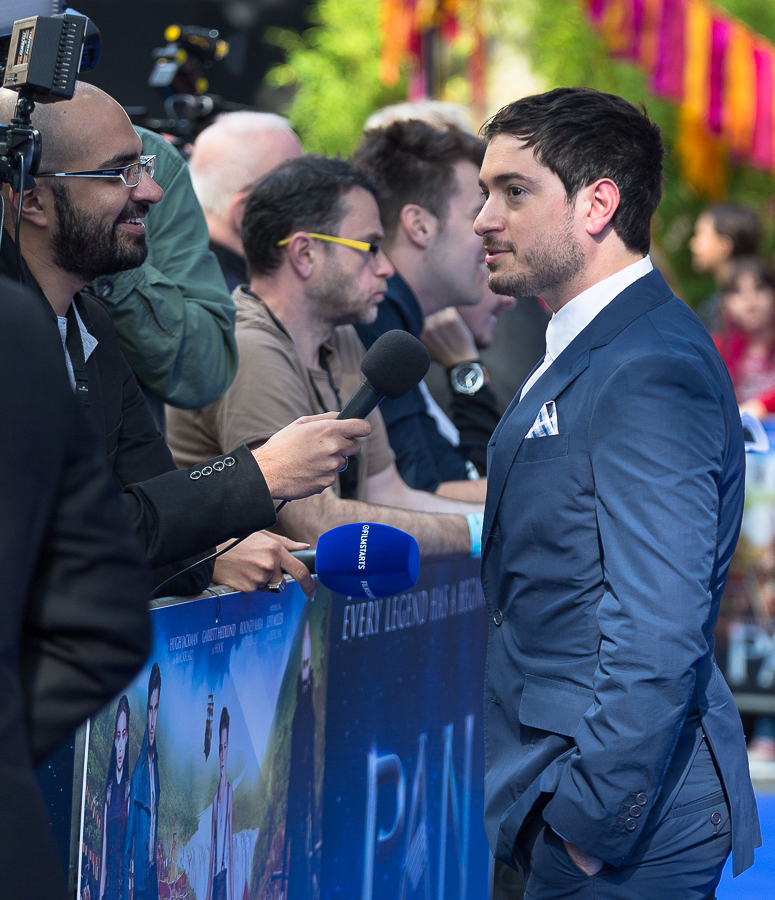 Jason Fuchs at the Pan première